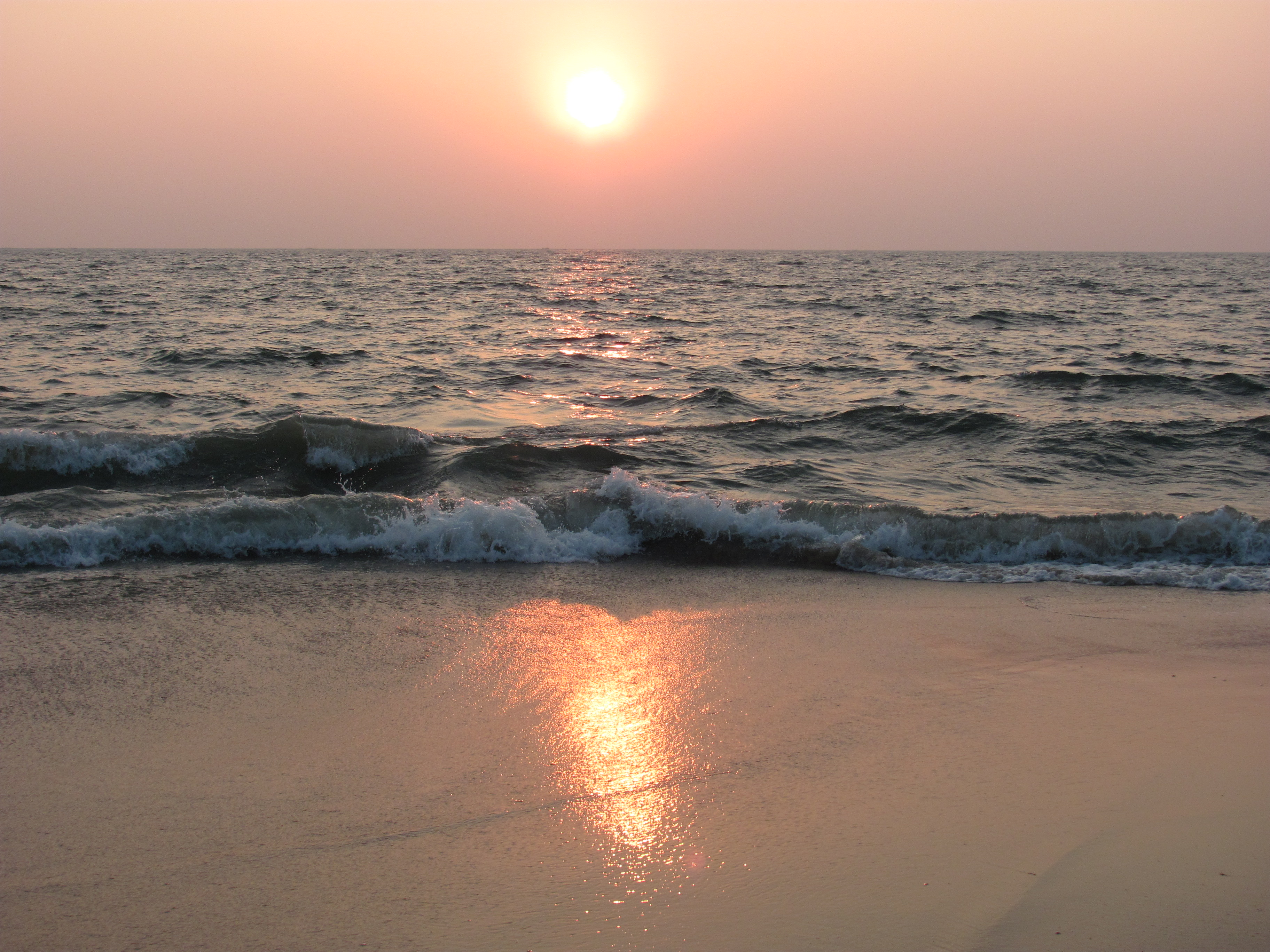 Sun set at Alapuzha Beach, Kerala